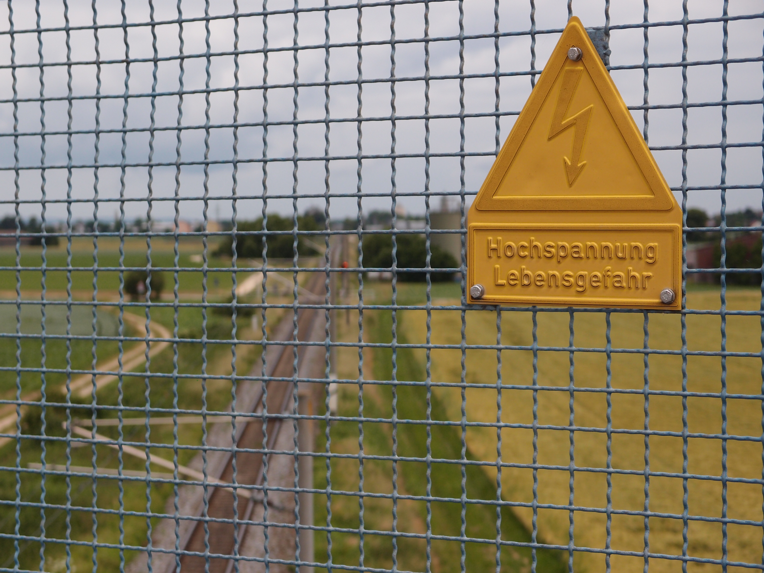 Warning sign on a railway bridge in Germany. The sign says, "High voltage – danger of life"